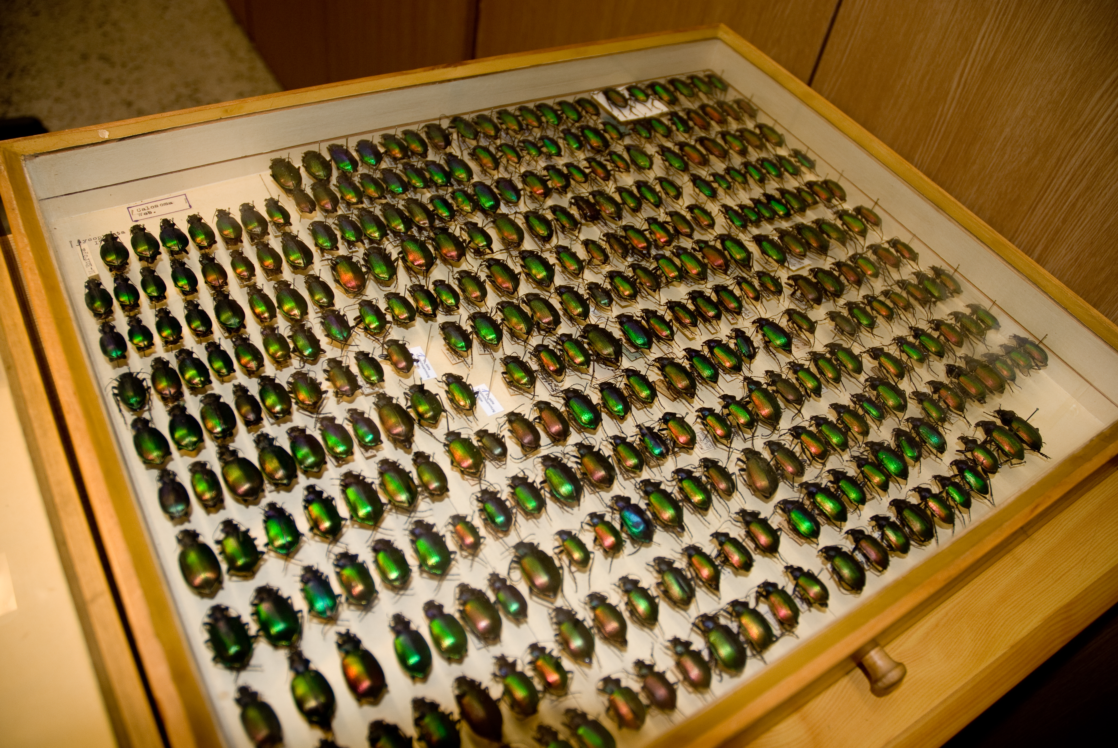 A beetle collection at the Museum of Natural History, Berlin 2009